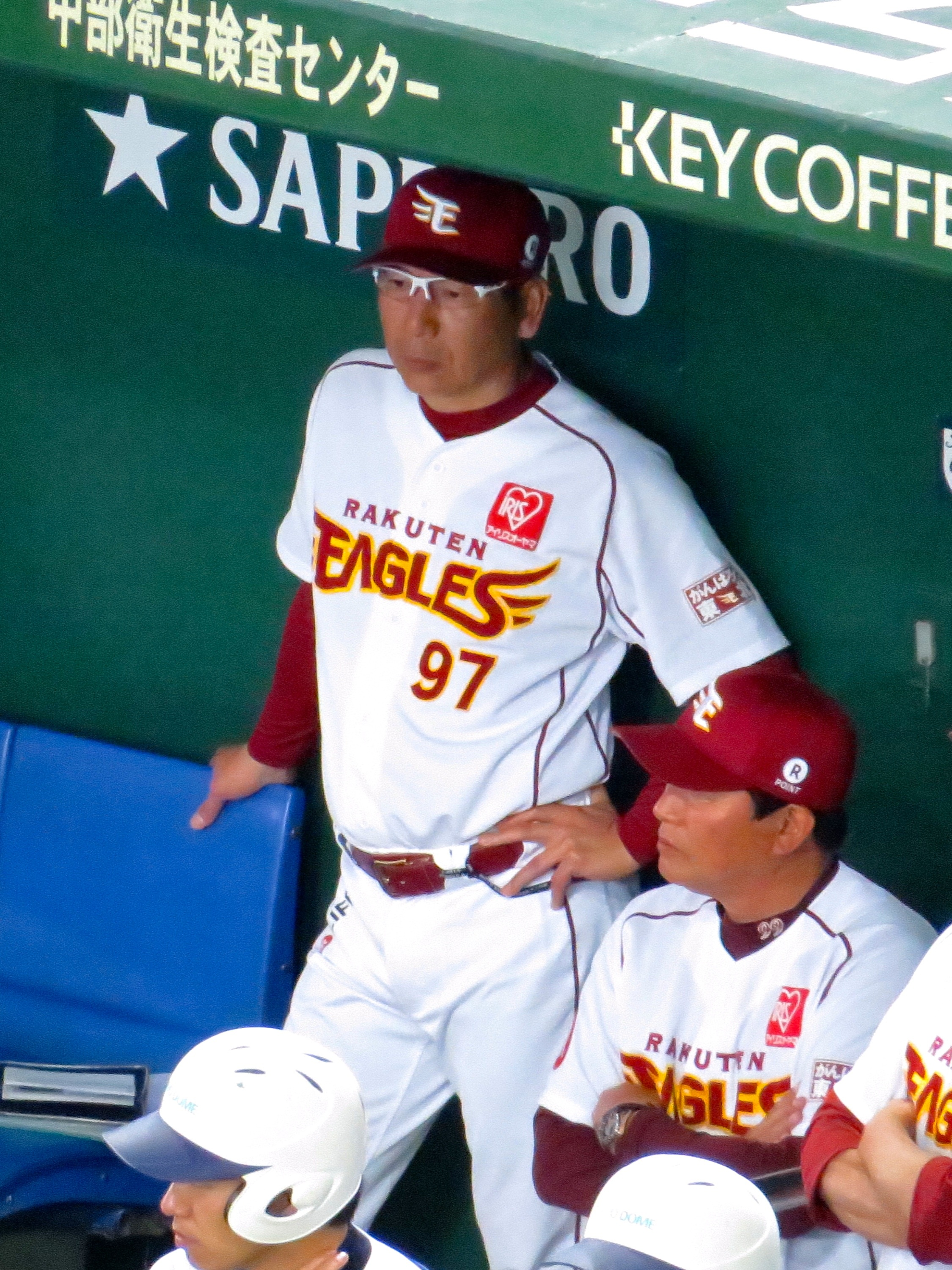 Kenji Furukubo, coach of the Tohoku Rakuten Golden Eagles, at Tokyo Dome